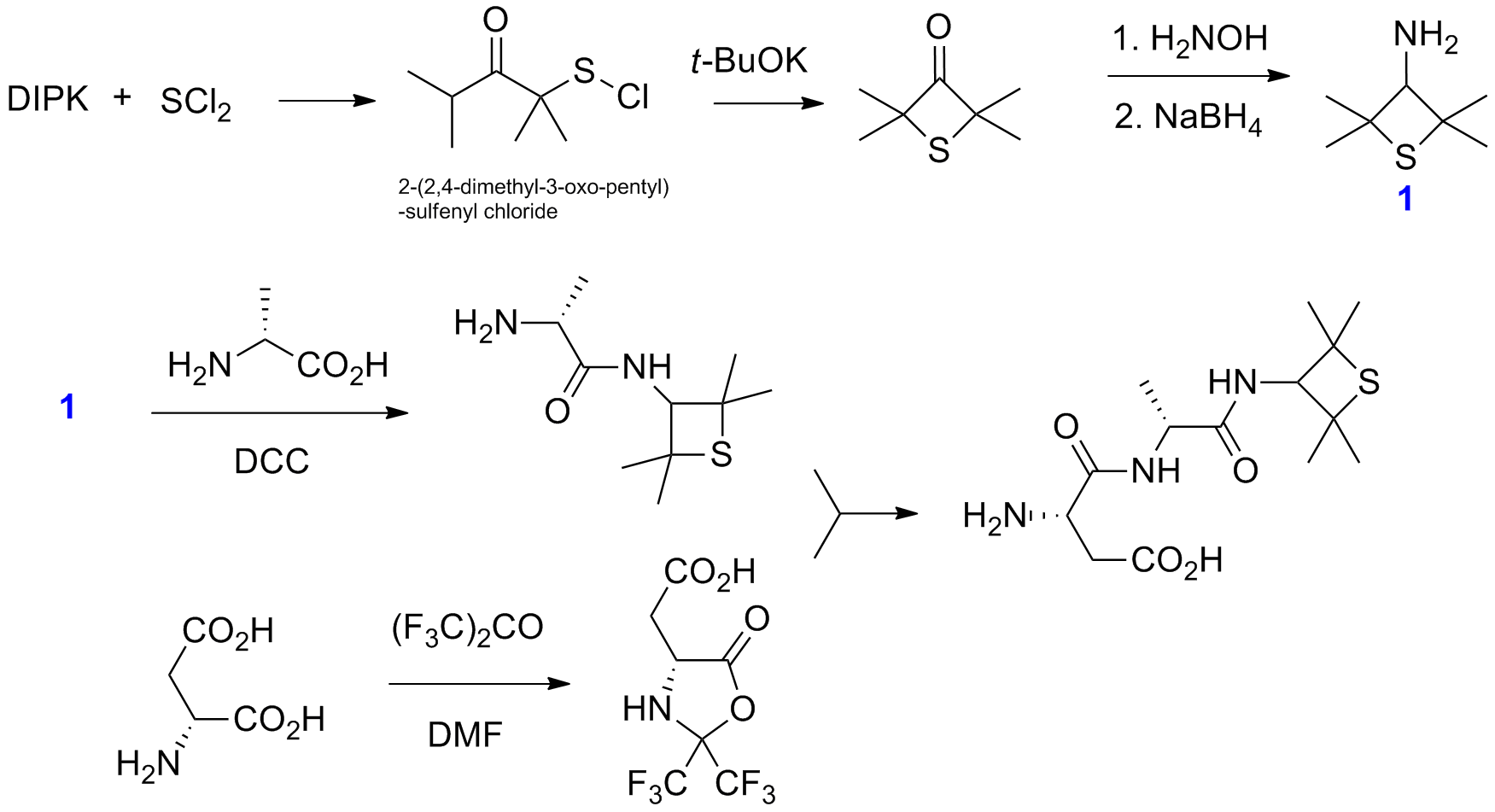 US5874121 Lednicer claims DCC but not seen in patent.